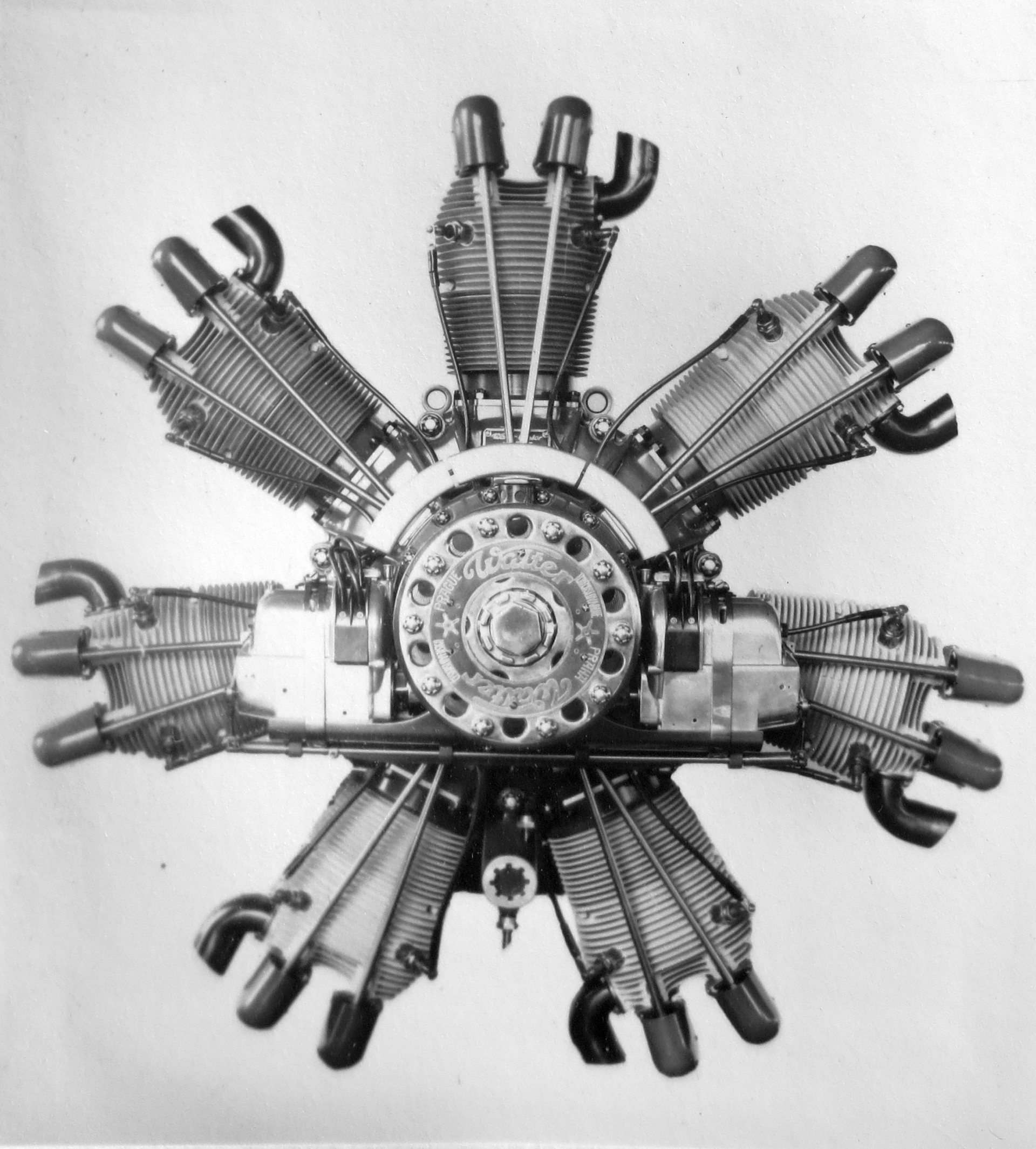 Walter Castor (1928) magazine Pestrý týden